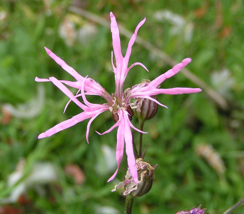 Ragged-robin (Lychnis flos-cuculi). Photo by sannse, Little Bentley Hall, Essex, 12 June 2004